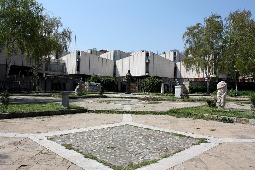 Museum of Macedonia_11 An artefact in the Ethnological section of the Museum of Macedonia, Skopje.